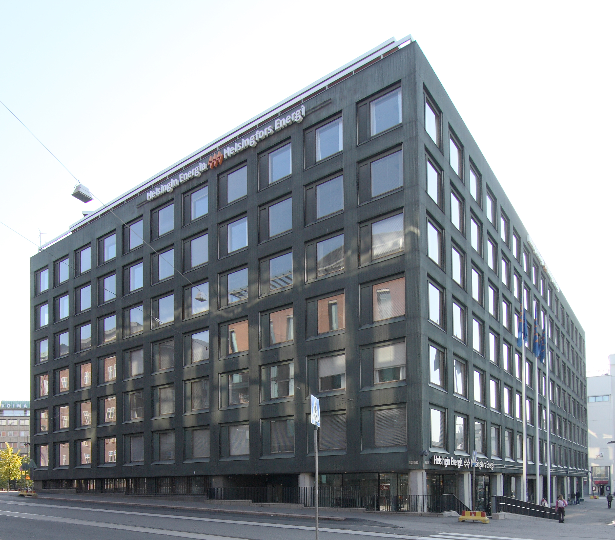 Sähkötalo, Helsinki. Architect: Alvar Aalto 1973